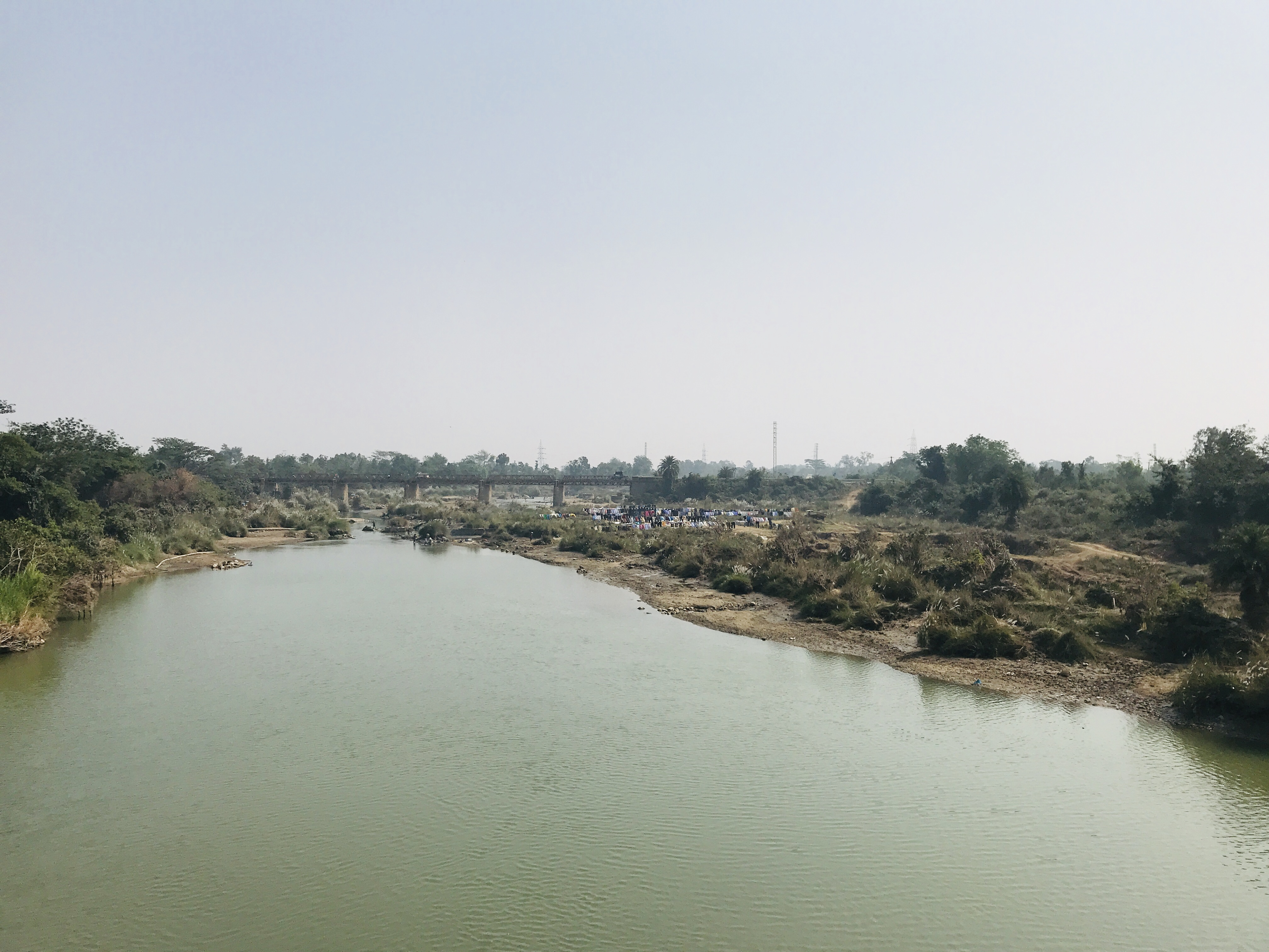 Bahuda river from railway bridge